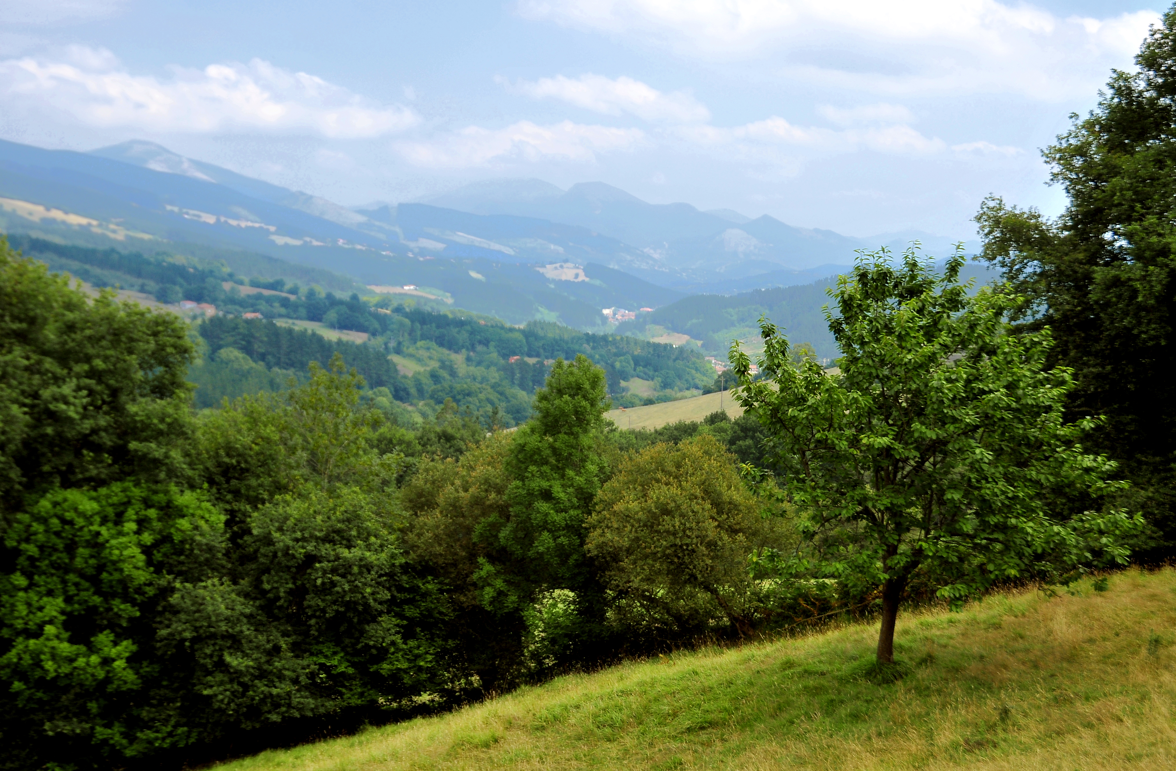 Salcedo Valley from Otxaran. Zalla, Biscay, Basque Country, Spain